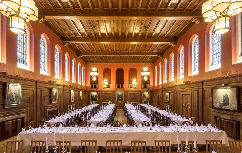 LMH Hall